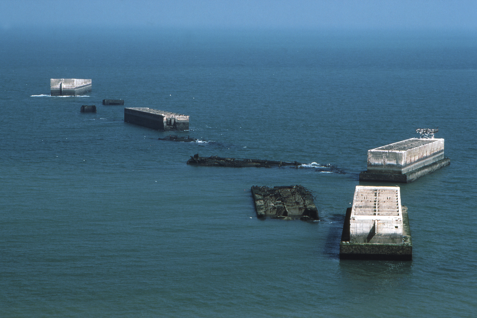 View to western phoenix elements of Mulberry Harbour B from Cap Manvieux; Arromanches, Normandy, France